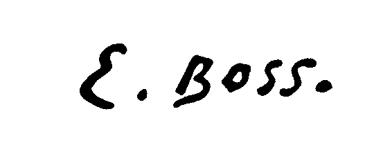 Scan aus Classified Signaturs of Artists